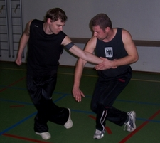 Choy Li Fut, Kungfu, practice in Katwijk, the Netherlands, orange sash.